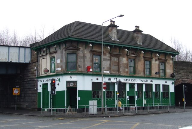 The Brazen Head A pub sandwiched between streets and railway lines in The Gorbals. A Celtic pub in every sense of the word. Possibly originally a railway station.